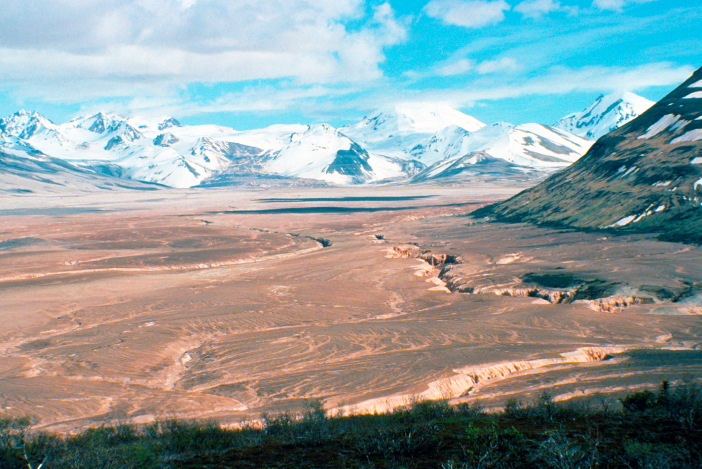 Katmai National Park and Preserve, Alaska. Southeast up the Valley of Ten Thousand Smokes, viewed from the Overlook Cabin. The valley is filled with up to 200 meters (660 feet) of ash-flow deposits from the June 1912 eruption of Novarupta Volcano. The rim of Katmai Caldera is on the left skyline.